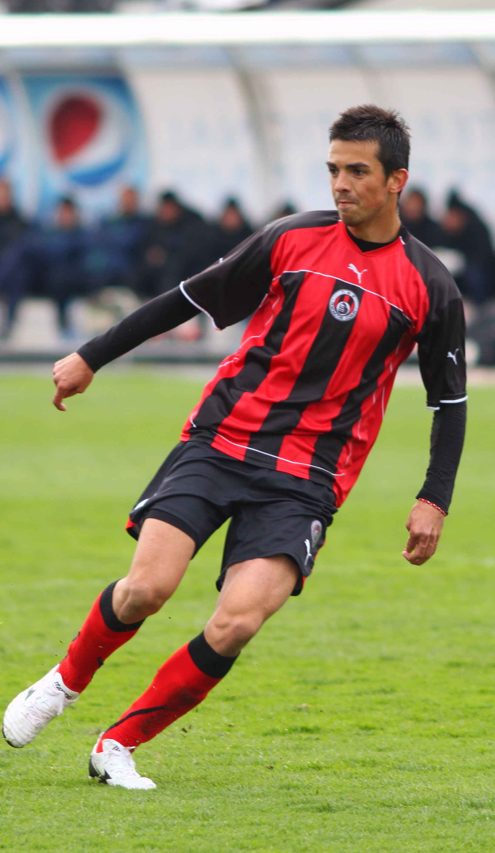 Kostadin Velkov - Bulgarian soccer player